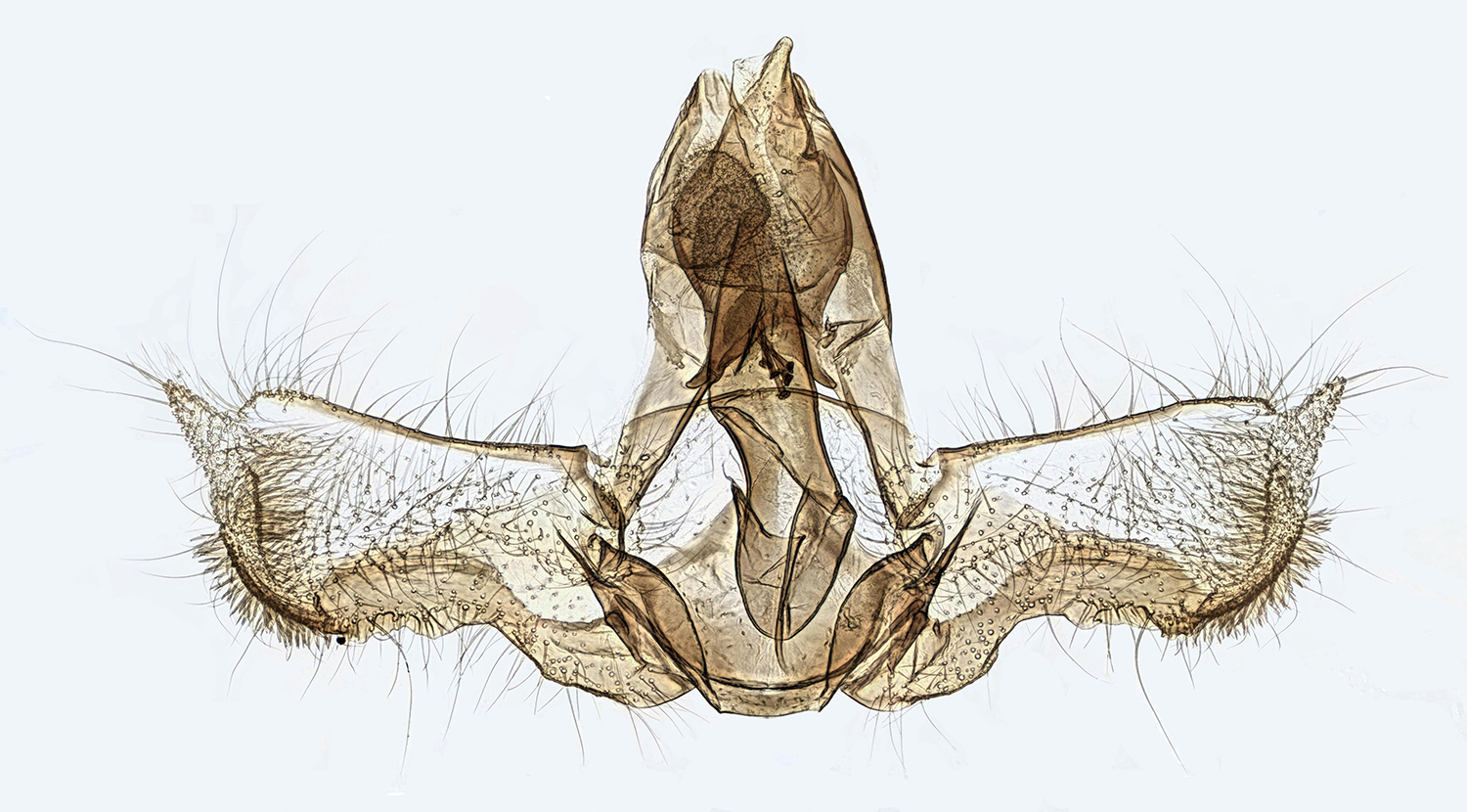 Acleris aspersana, Sontley, North Wales, Aug 2015 male genitalia